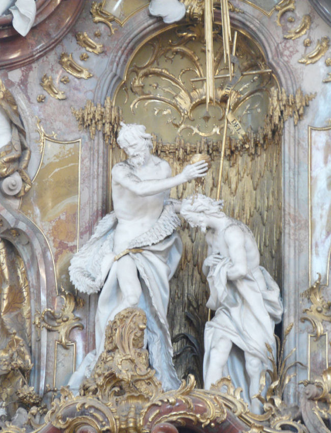 Statues of Baptism of Christ above the baptismal font at Ottobeuren Abbey, Ottobeuren, Germany